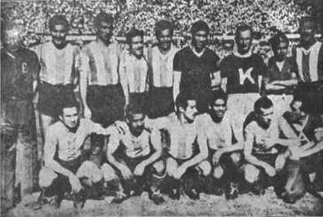 Line-up of Argentina national football team during the 1945 Southamerican Championship